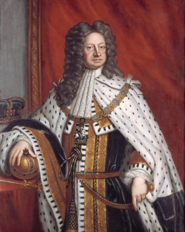 George I, king of Great Britain